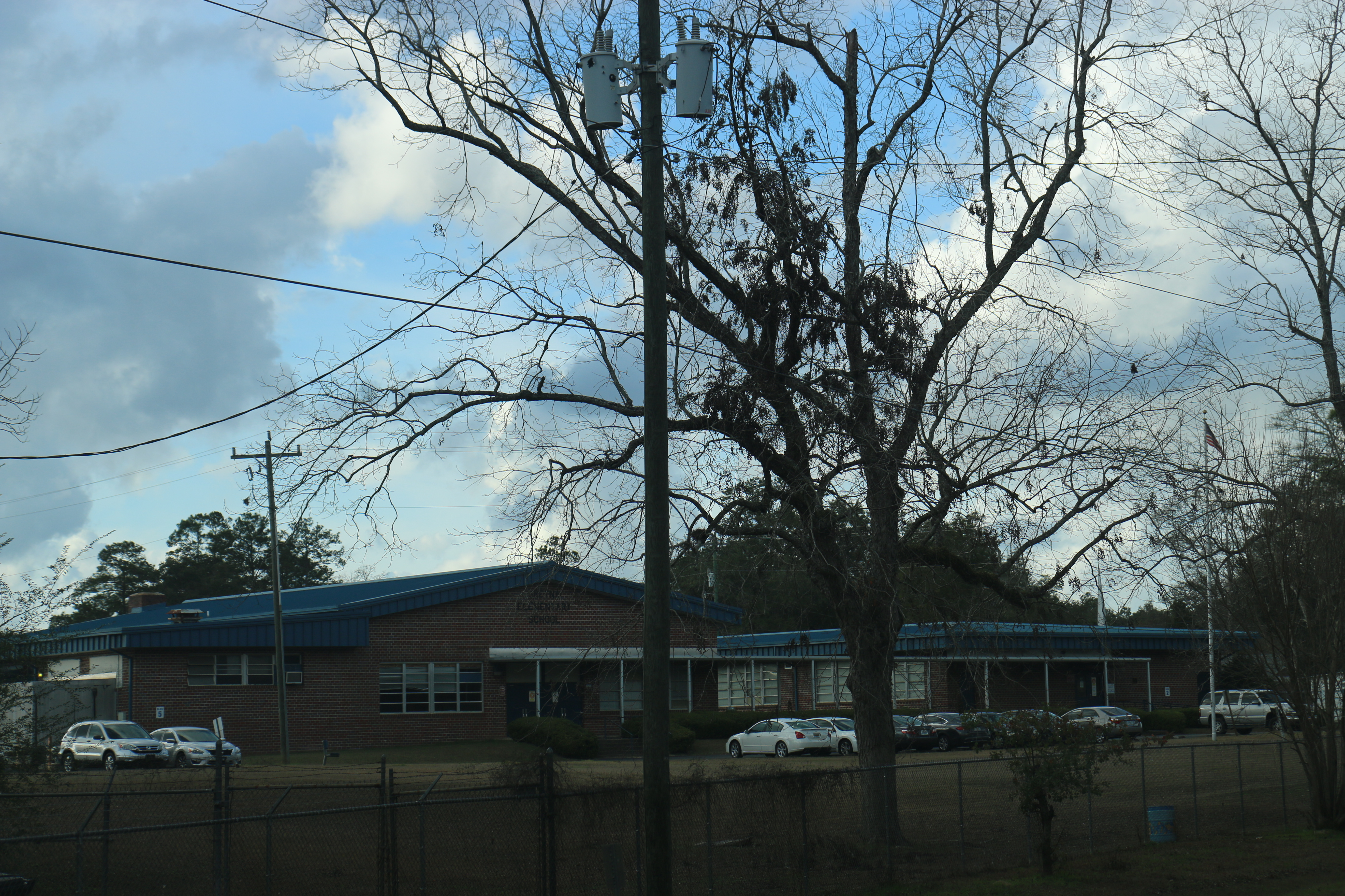 The elementary school in Gretna, Florida.